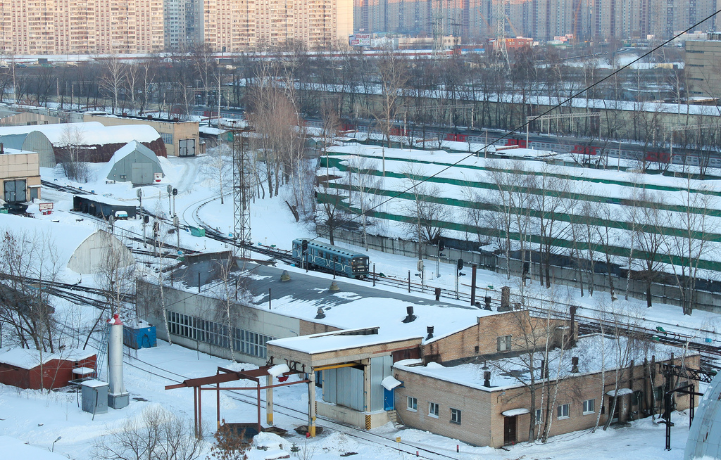 Panorama of Novogireyevo Moscow Metro depot.